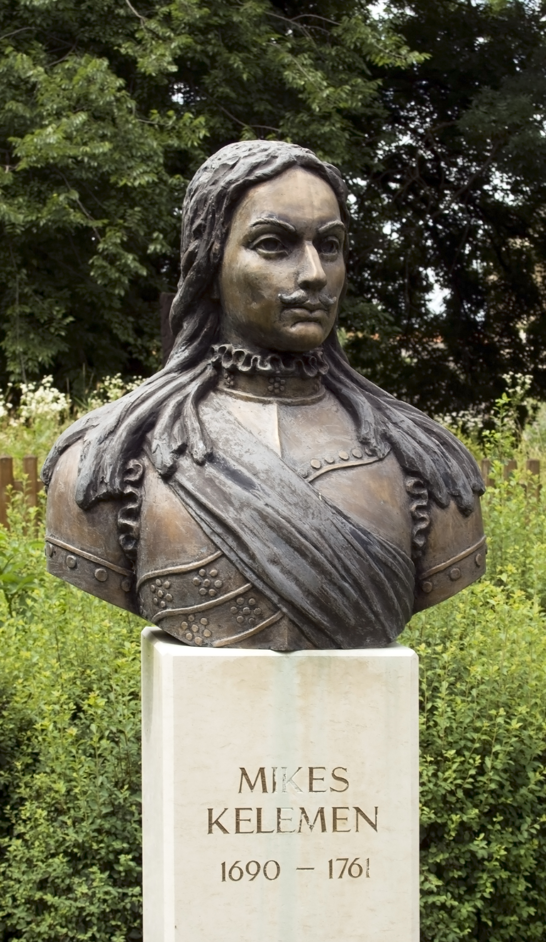 Bust of Kelemen Mikes in the park of the Vaja Castle, Hungary – Lajos Imre Nagy, 2004